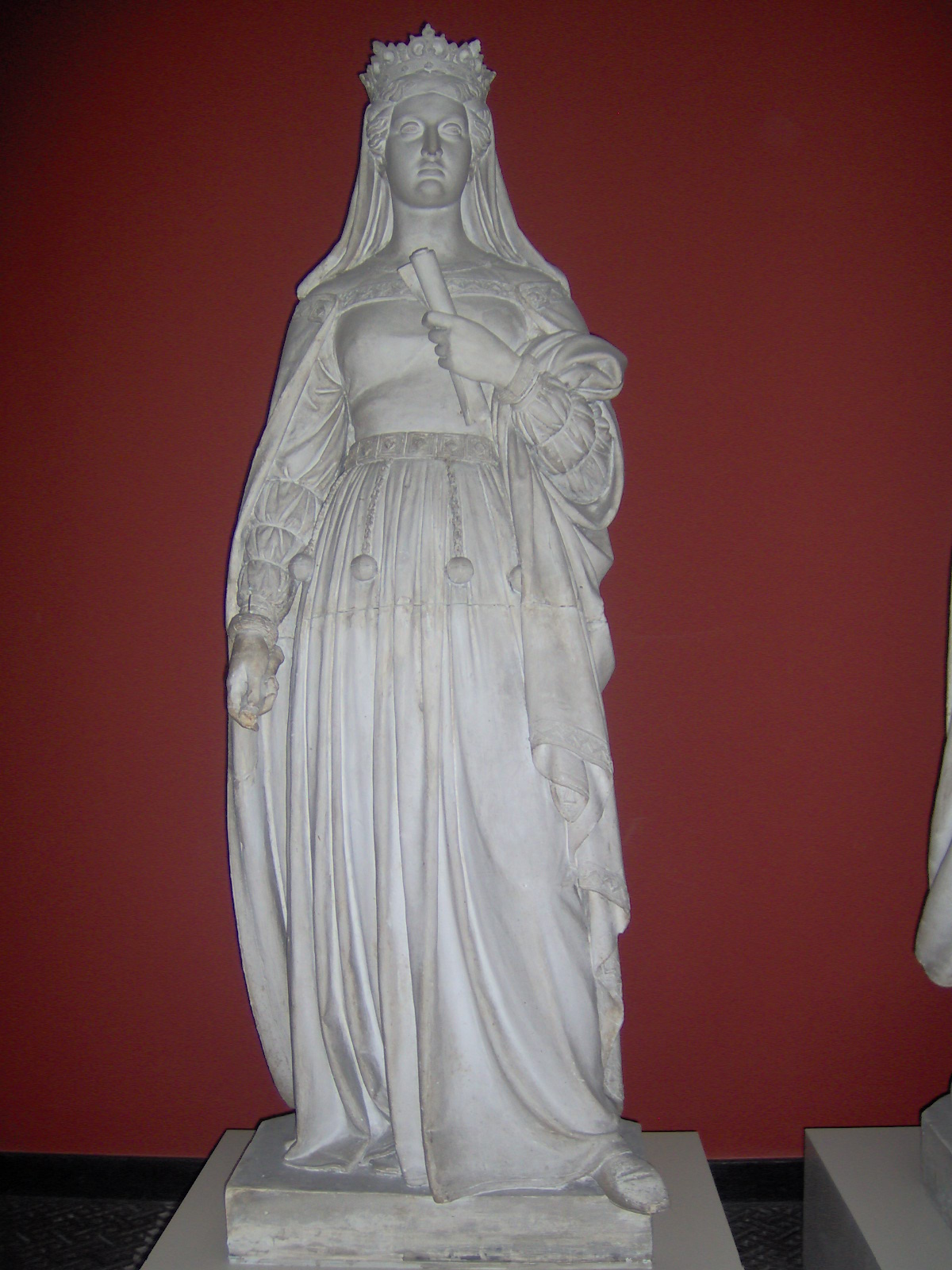 Margaret I of Denmark by Herman Wilhelm Bissen